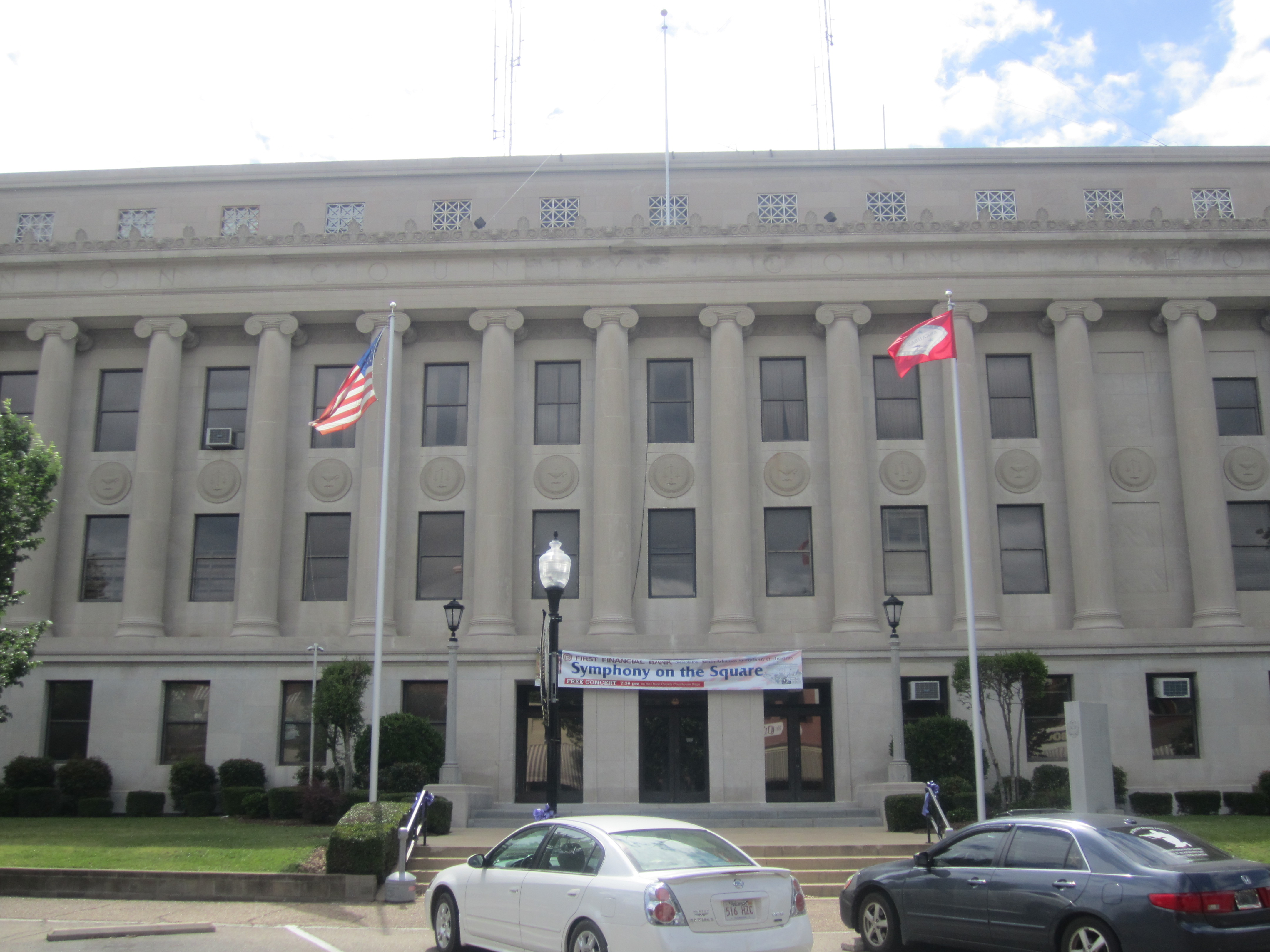 I took photo of Union County Courthouse in El Dorado, AR, with Canon camera.